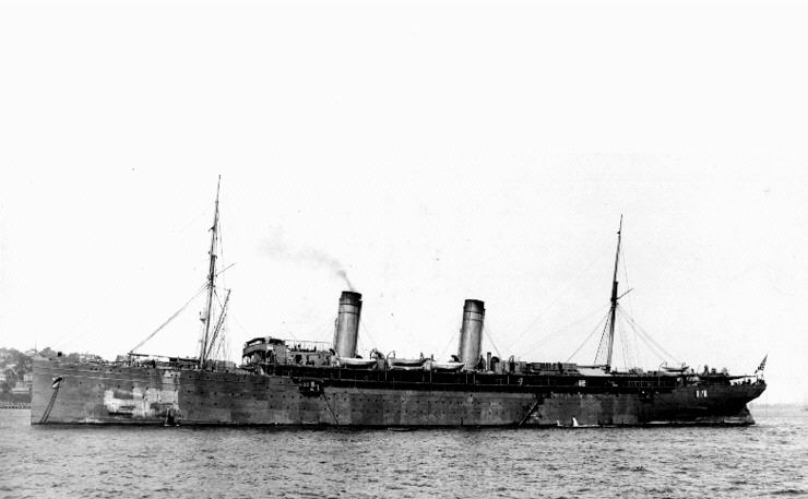 USS St. Paul (1898) photographed at the end of the Spanish-American War. Original caption: “Photo # NH 59924 USS St. Paul, ca. Summer 1898” — removed caption